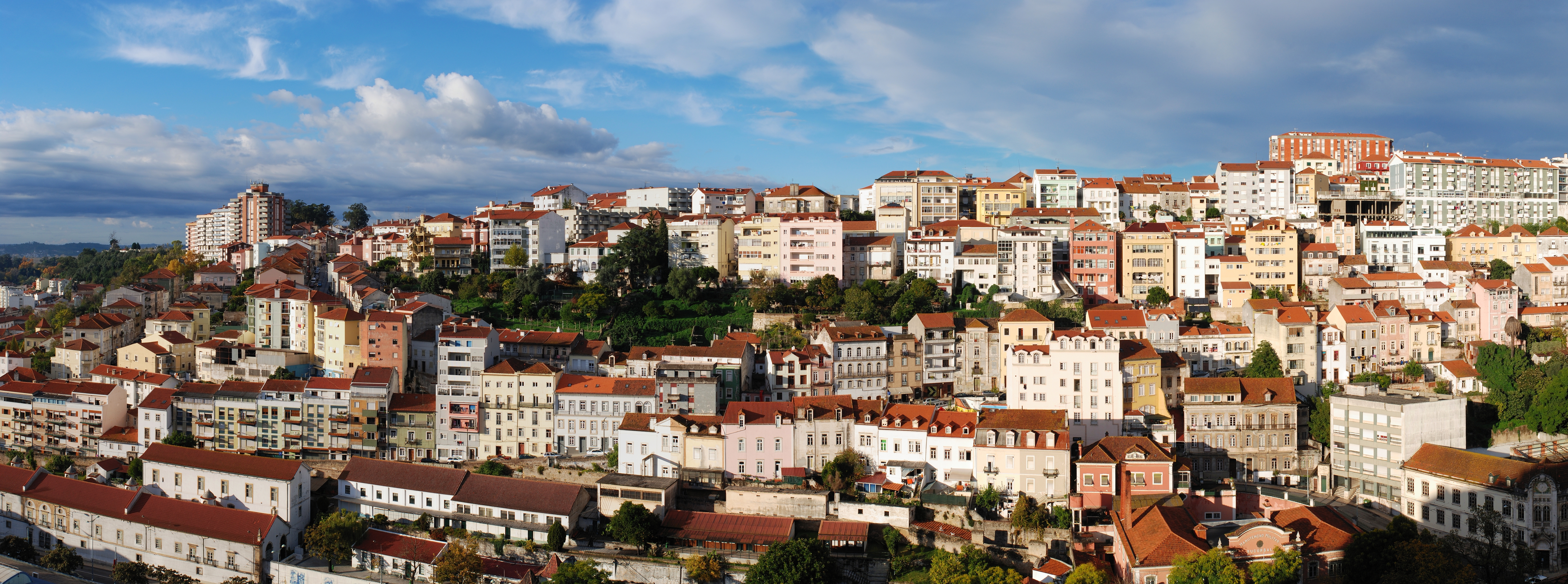 A view of the city of Coimbra, Portugal, from near the University to north